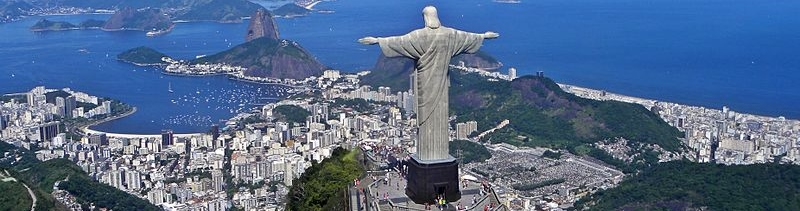 banner of Rio trabajo derivado de: File:Christ on Corcovado mountain.JPG